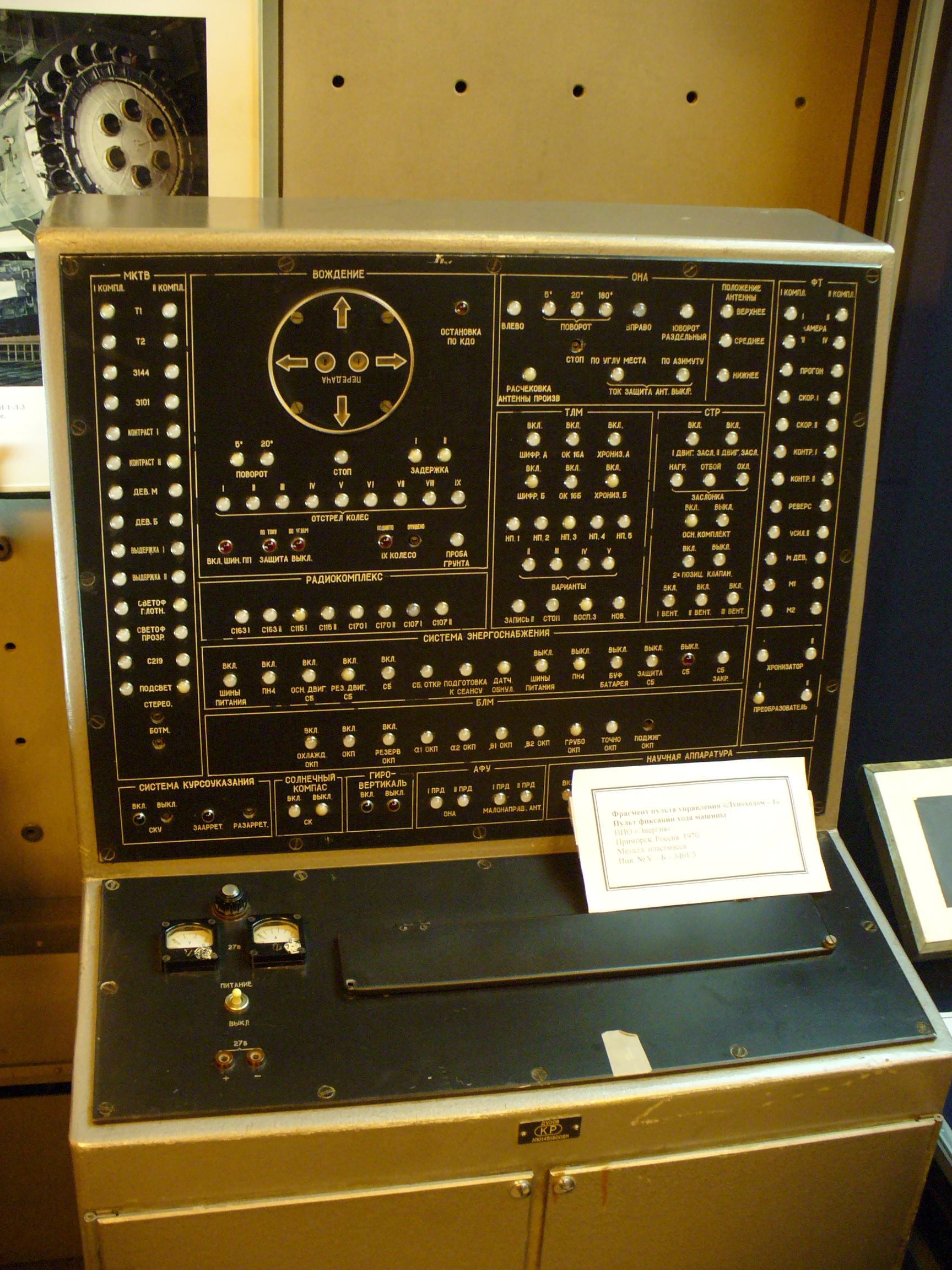 Lunokhod control panel - second part. Described, in free translation, as "The rover movement setting panel".